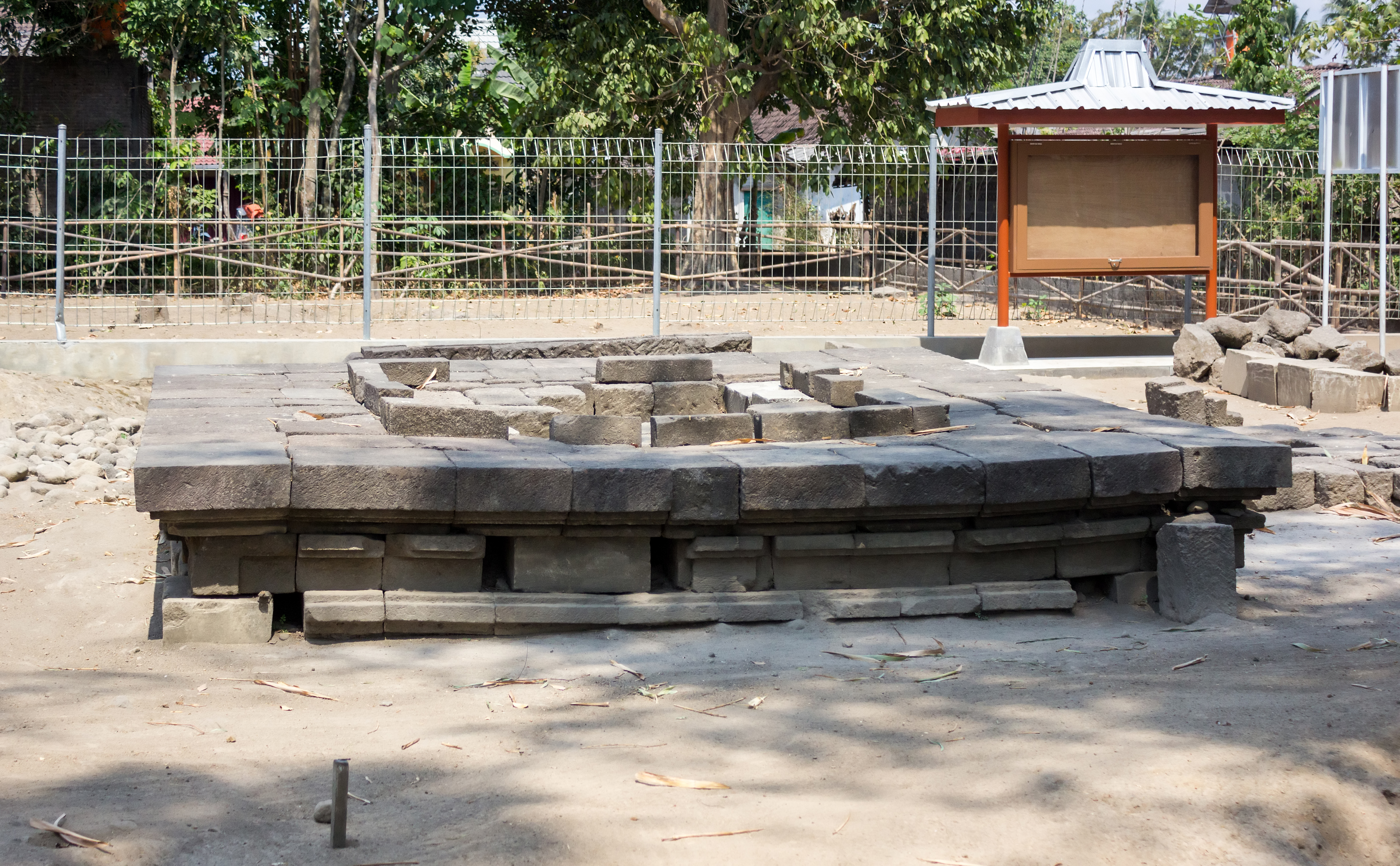 Palgading Temple complex, 2014-09-28